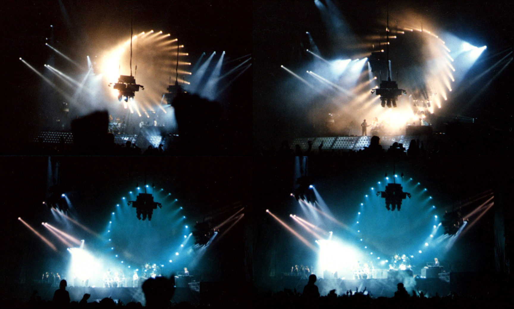 A montage of the stage during Pink Floyd's Momentary Lapse tour between 1987 and 1990. Shot from the audience. I have modified the image slightly, as the original had small gaps between each photograph. Also levels adjusted two of the images to match the blacks.